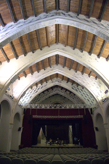 Internal of San Domenico Theater in Crema